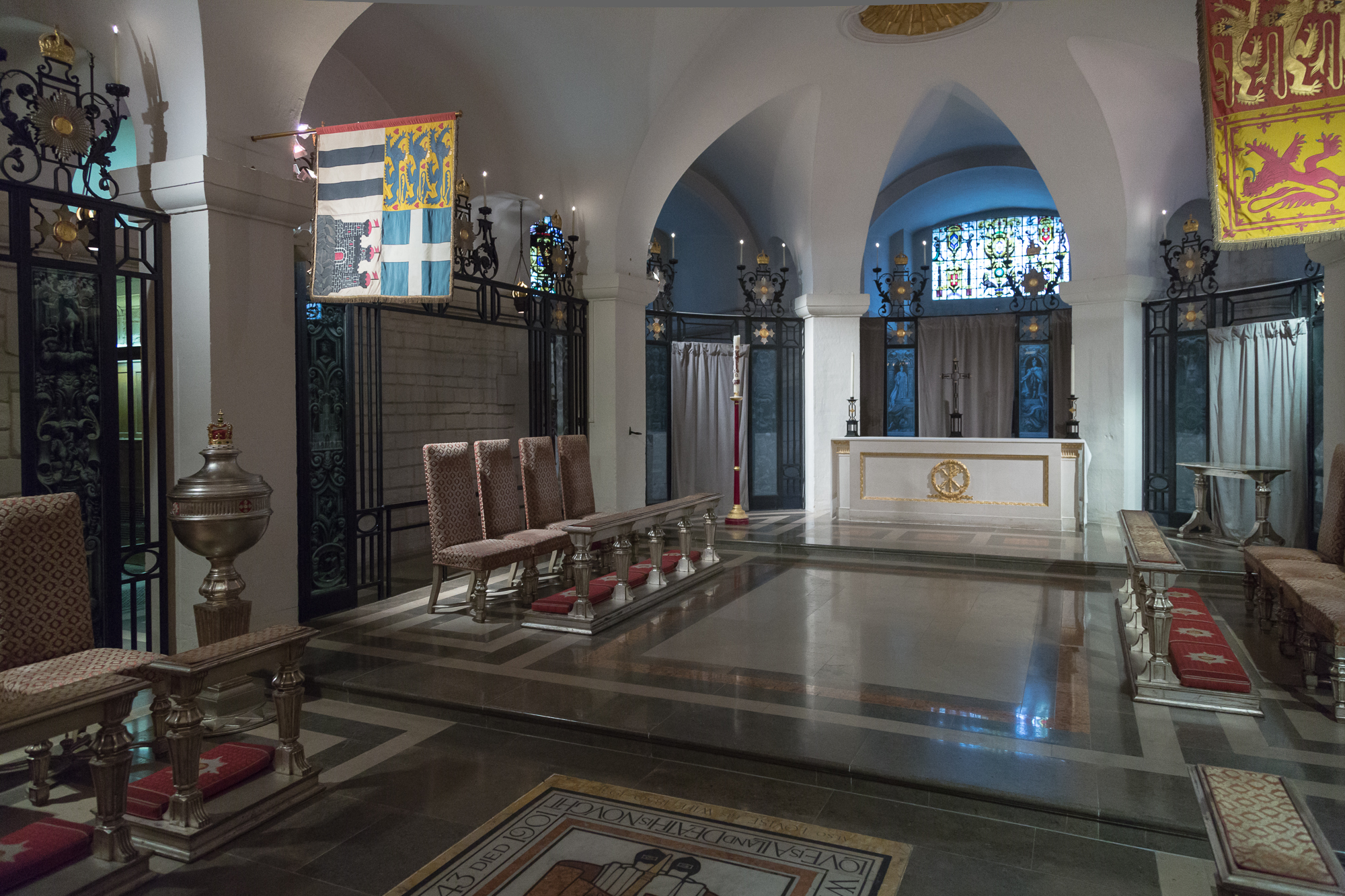 St. Pauls Cathedral, London: Chapel of the Order of the British Empire in the crypt of St Paul's Cathedral